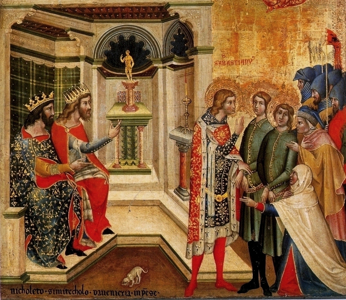 One of seven decorating panels at the reliquiary on the St Sebastian Altar